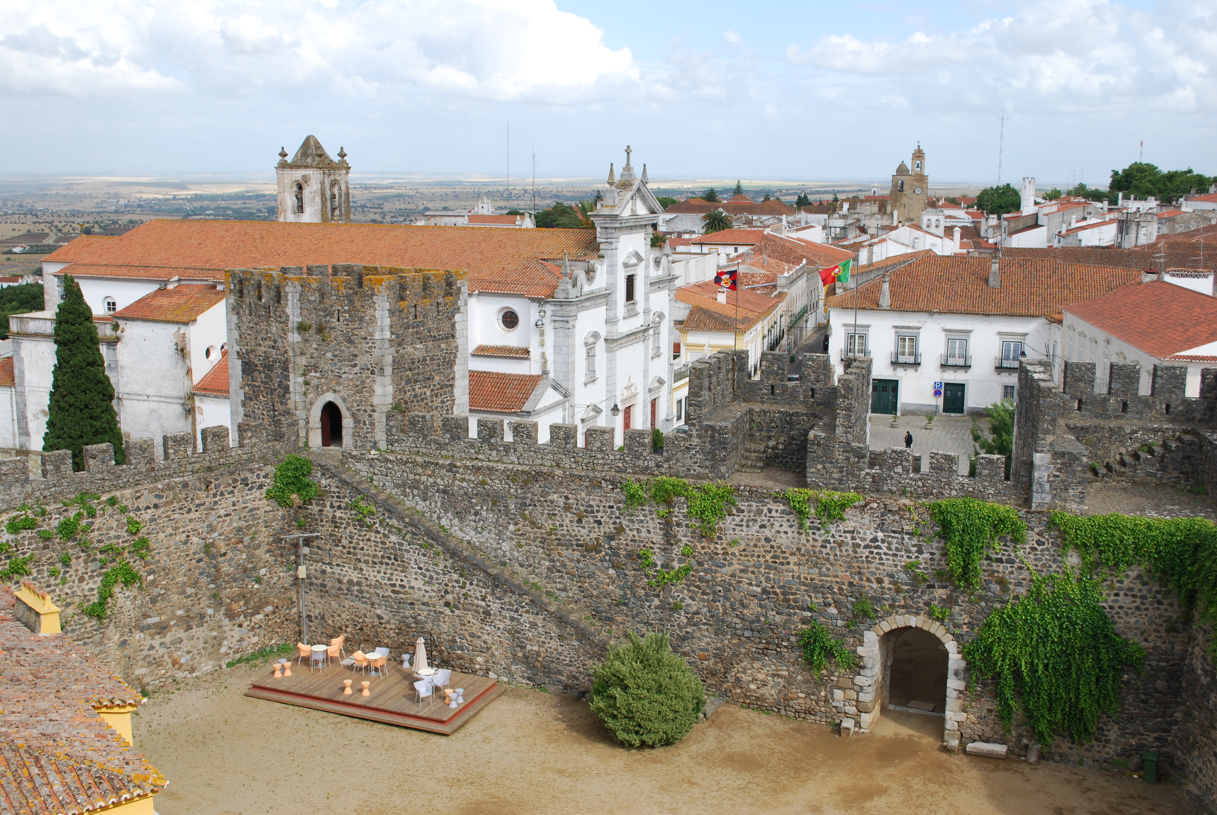 This file was uploaded for Wiki Loves Monuments in Portugal with the unique identifier 97004404.